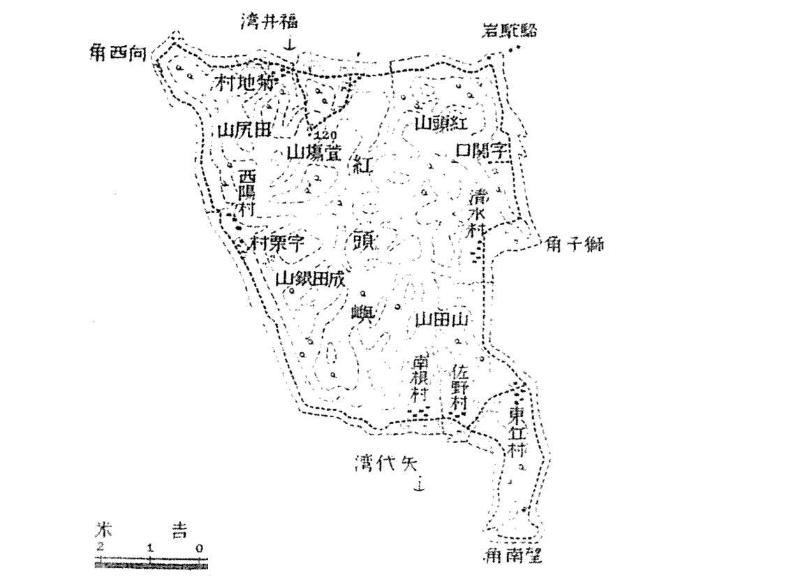 Part of Temporary 1/200,000 map of Hongtoushu (Lanyu), Taiwan